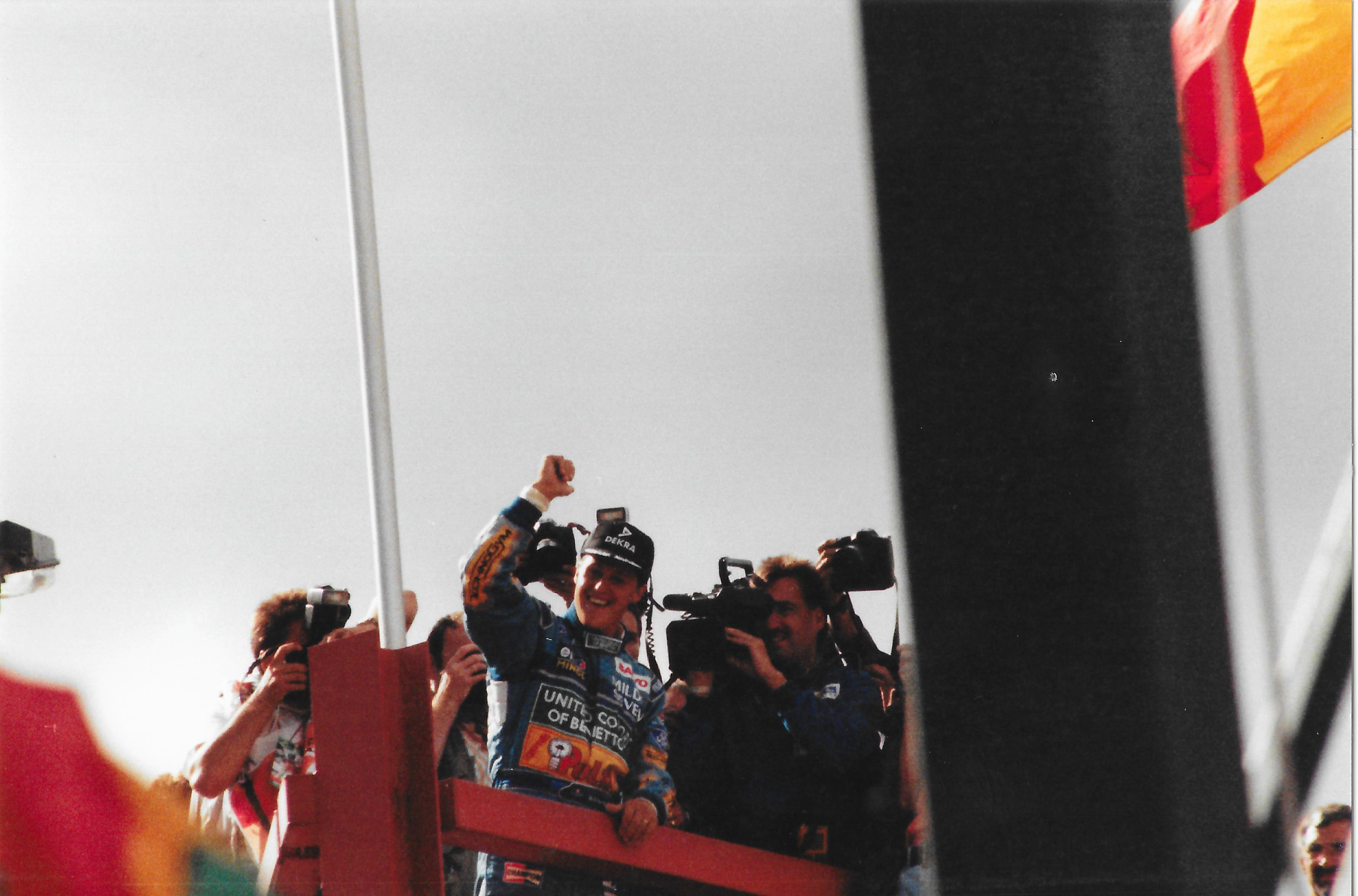 Michael Schumacher celebrating his victory in the Belgian Grand Prix until he was disqualified due to excessive wear on a wooden skid block underneath his car. Photograph taken by relative.